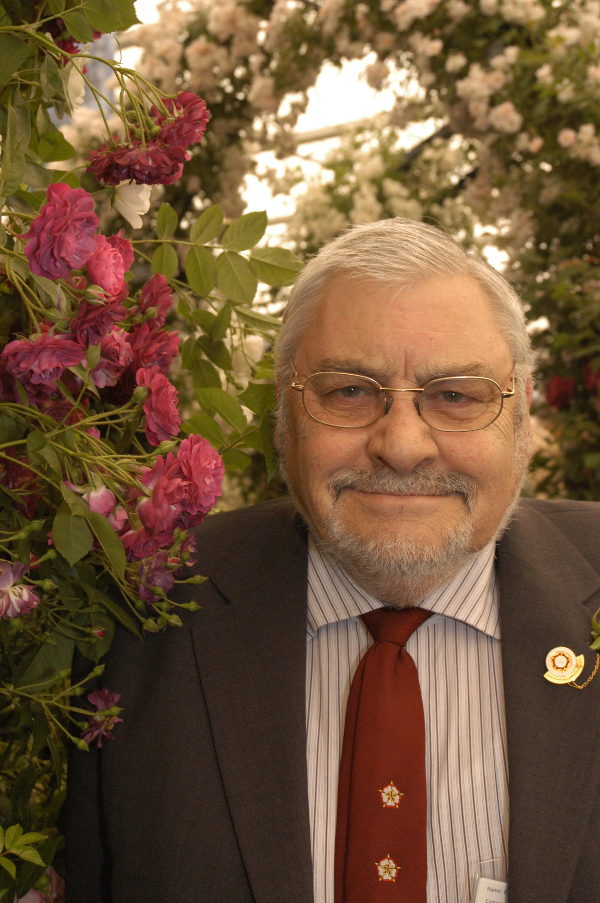 Peter Beales MBE taken at the RHS Chelsea Flower Show